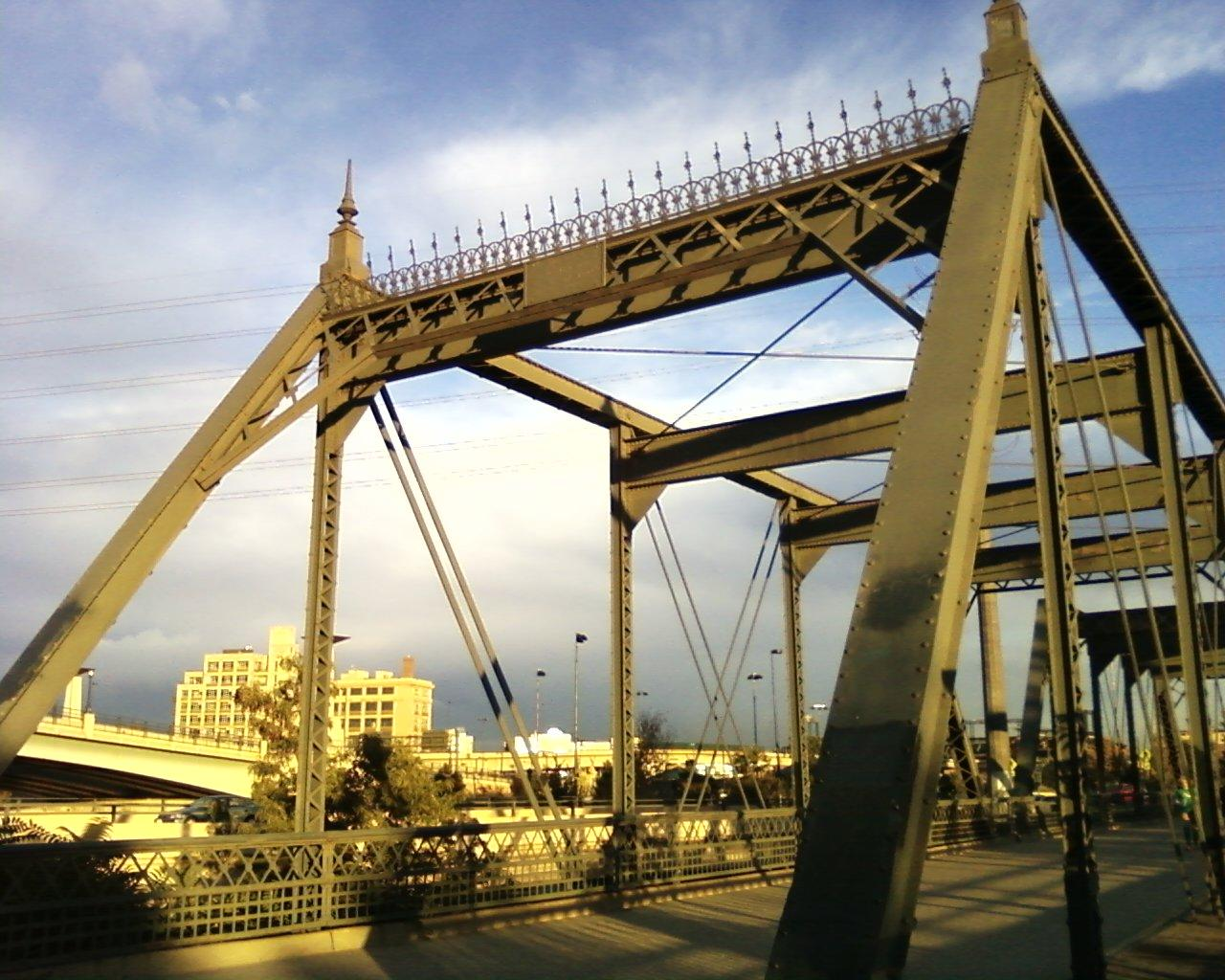 19th St. Bridge in Denver, Colorado looking to the east.